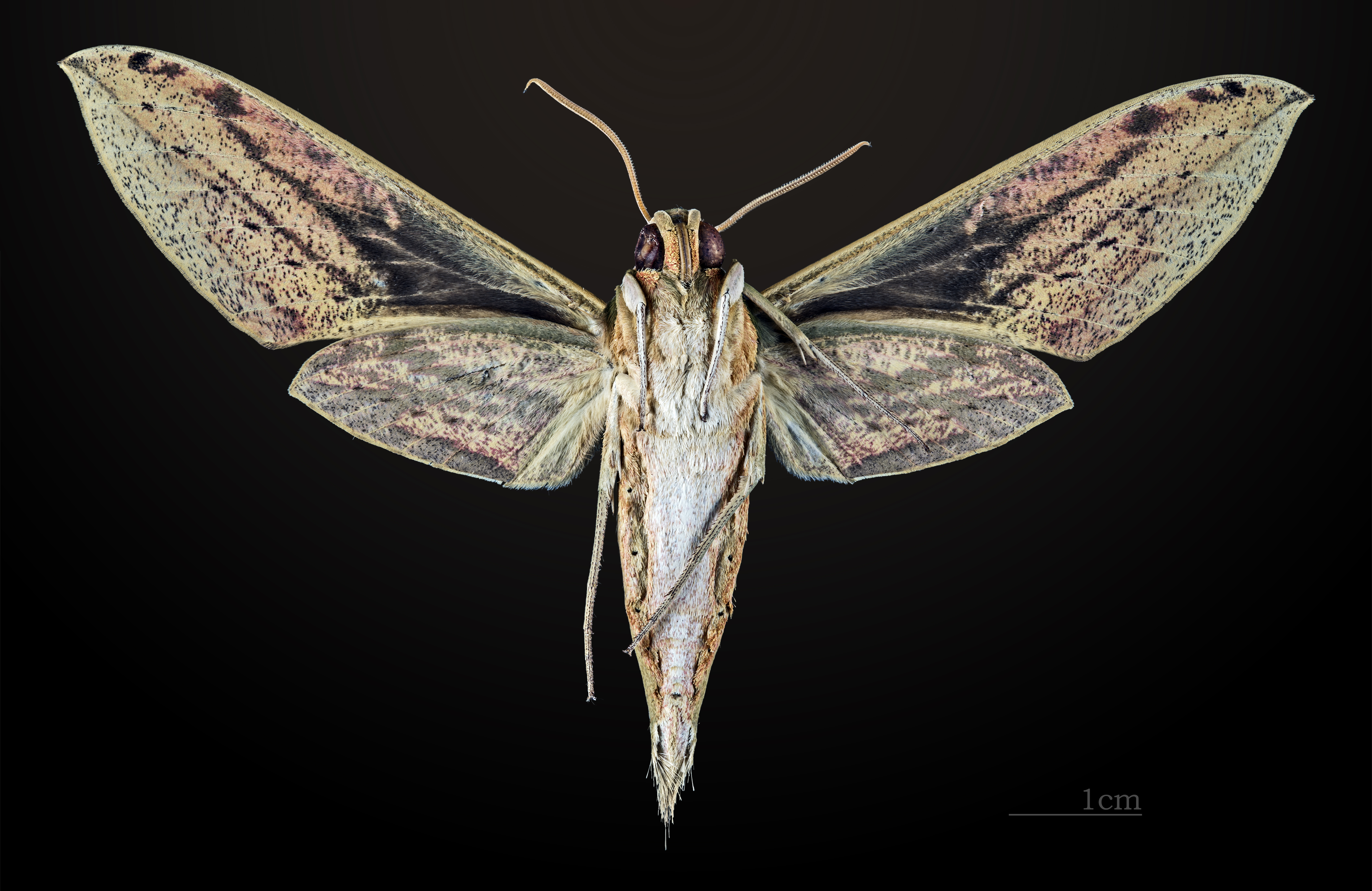 Cechenena lineosa - △ Ventral side Collection of the Mathematician Laurent Schwartz